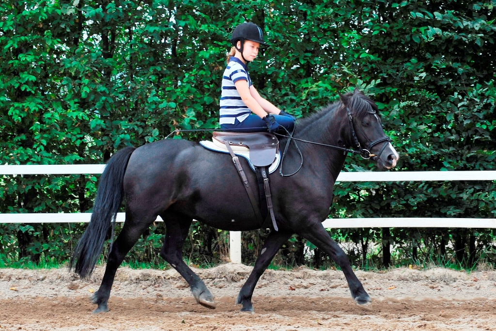 Der zeitgemäße Balancesitz ist das Ausbildungsziel